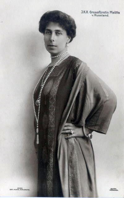 This photograph of Grand Duchess Victoria Feodorovna of Russia, dated sometime prior to World War I, was found at I tried to contact the owner of the Web site, Jesus Ibarra, but his e-mail address is not working. Because of the age of the photo, which appears to originate from a German postcard, I believe it is most likely in the public domain. If I am not correct, please delete the photo.